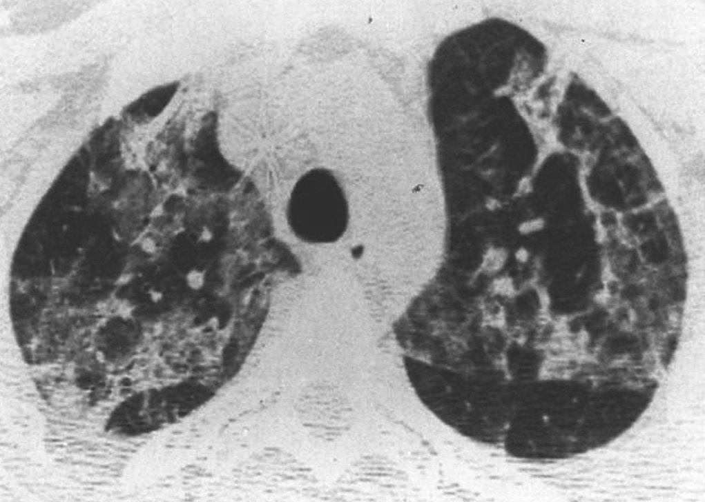 Pneumocystis pneumonia: Computed tomography (CT) in a subacute phase showing foci of consolidation and interlobular septal thickening due to organized inflammatory infiltrate on high-resolution CT